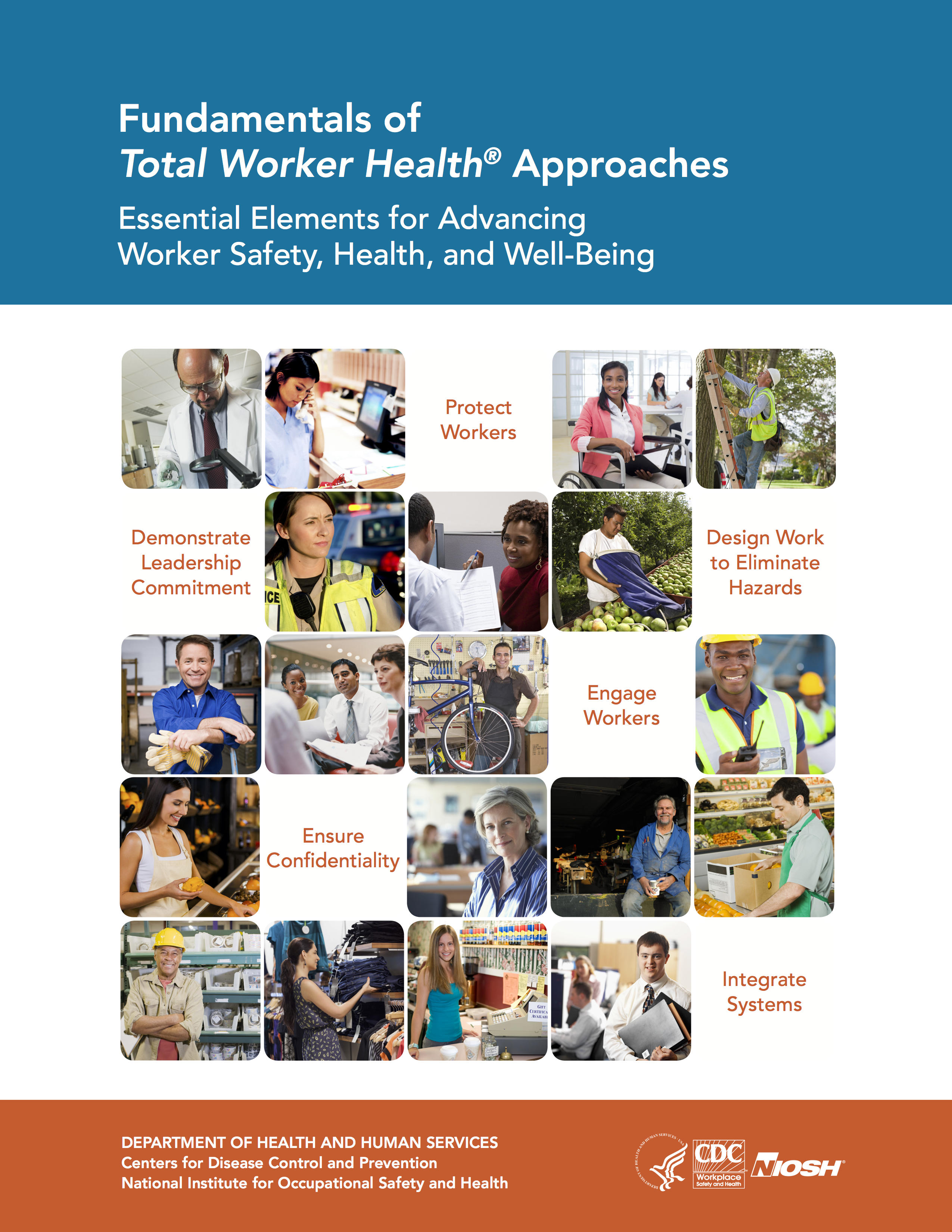 Blue and orange cover of workbook with small squares across cover featuring images of workers and text with Defining Elements of Total Worker Health